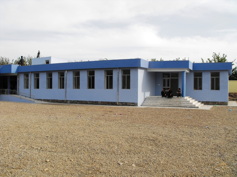 HERAT, Afghanistan (Apr. 05) --The school covers nearly 800 sq. meters. It contains ten classes and is equipped with all general services including a multi-purpose sports field.